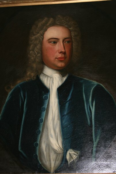 A photograph I took of a portrait of Sir Robert Munro, 6th Baronet.